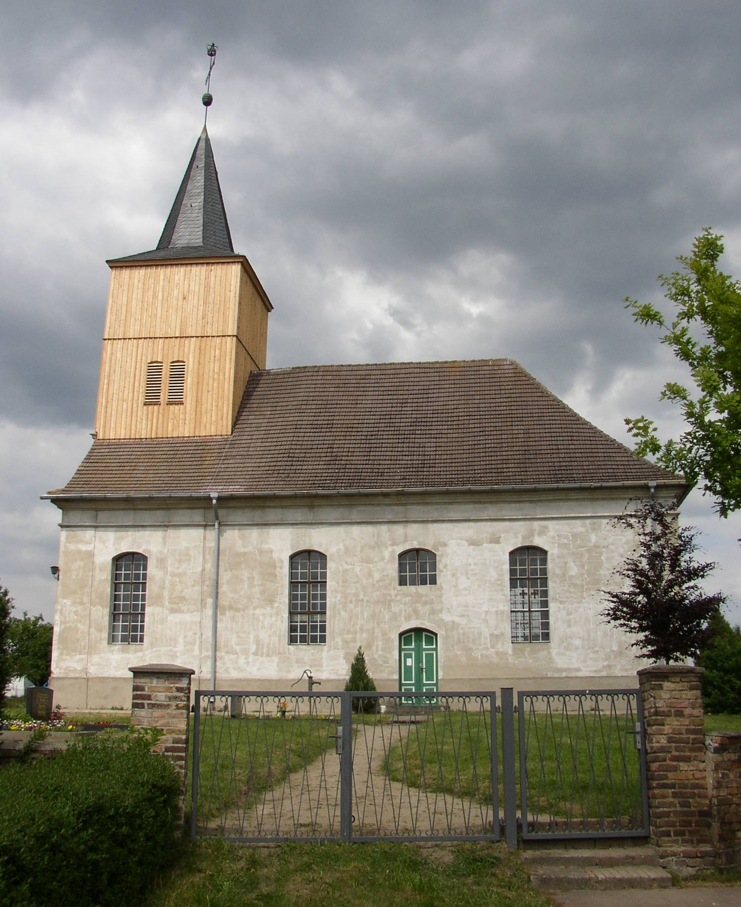 Church in Beelitz-Schlunkendorf in Brandenburg, Germany